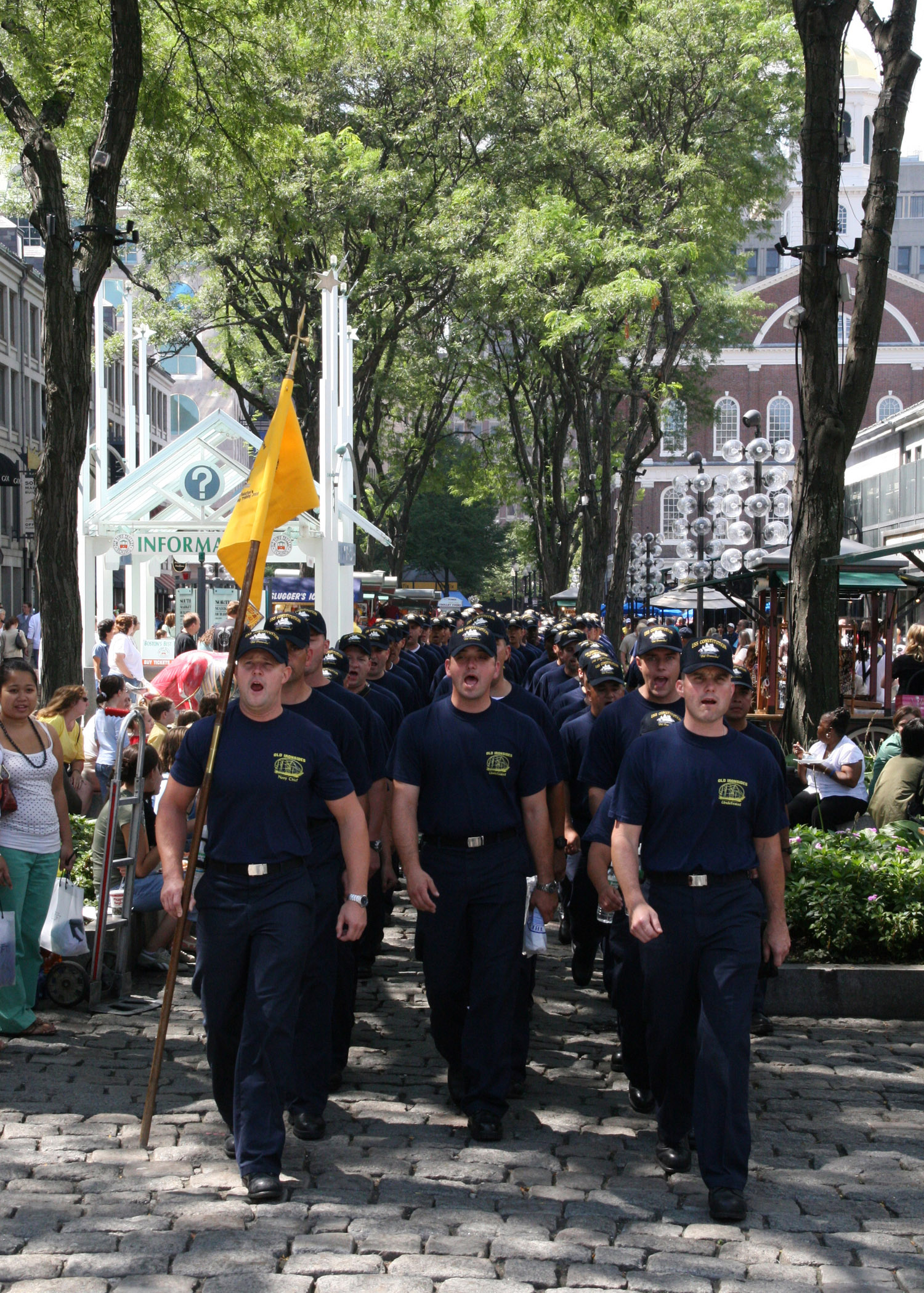 Boston (Aug. 30, 2006) - About 150 chief petty officer (CPO) selectees shout cadence as they march through Fanueil Hall during the 2nd week of CPO leadership training. Each year, Constitution hosts approximately 300 CPO selectees for training, which includes sail handling, gun drill training and community outreach designed to instill leadership and teamwork skills. U.S. Navy photo by Airman Nick Lyman (RELEASED)